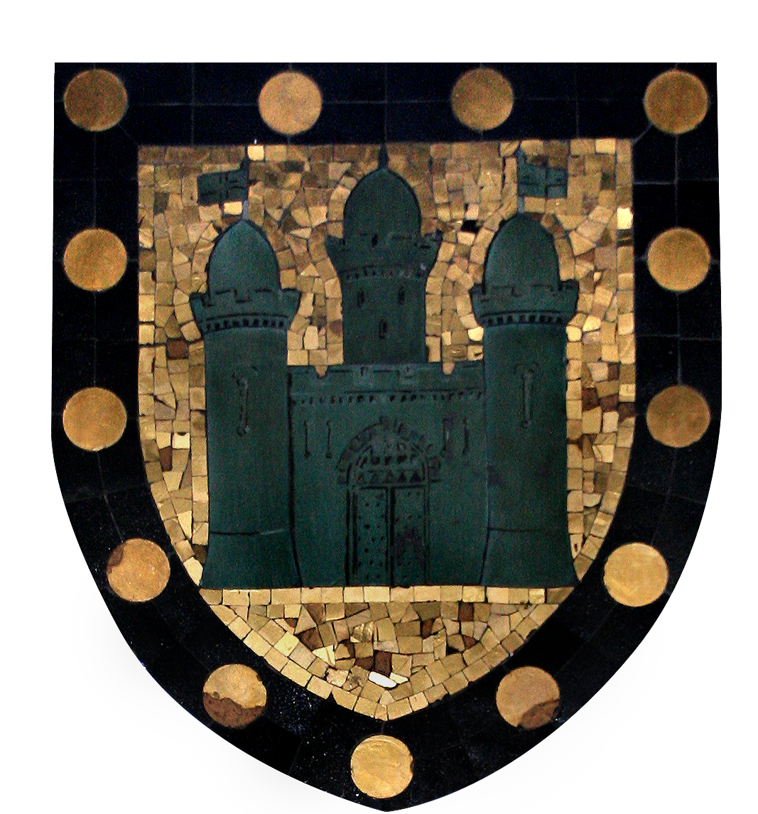 Crest of the town of Berkhamsted, England UK. Photo is a detail from the 1859 tiled fireplace within the Town Hall.